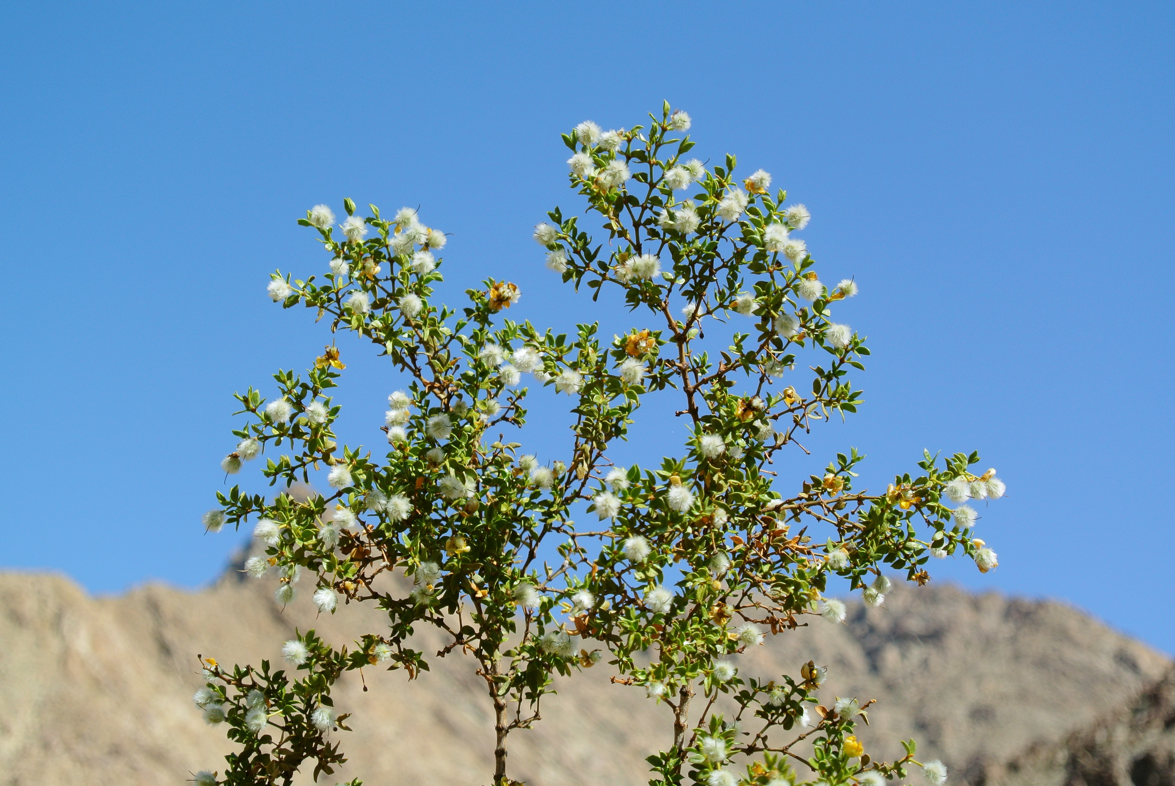 Larrea tridentata in Anza-Borrego Desert State Park (Palm Canyon)